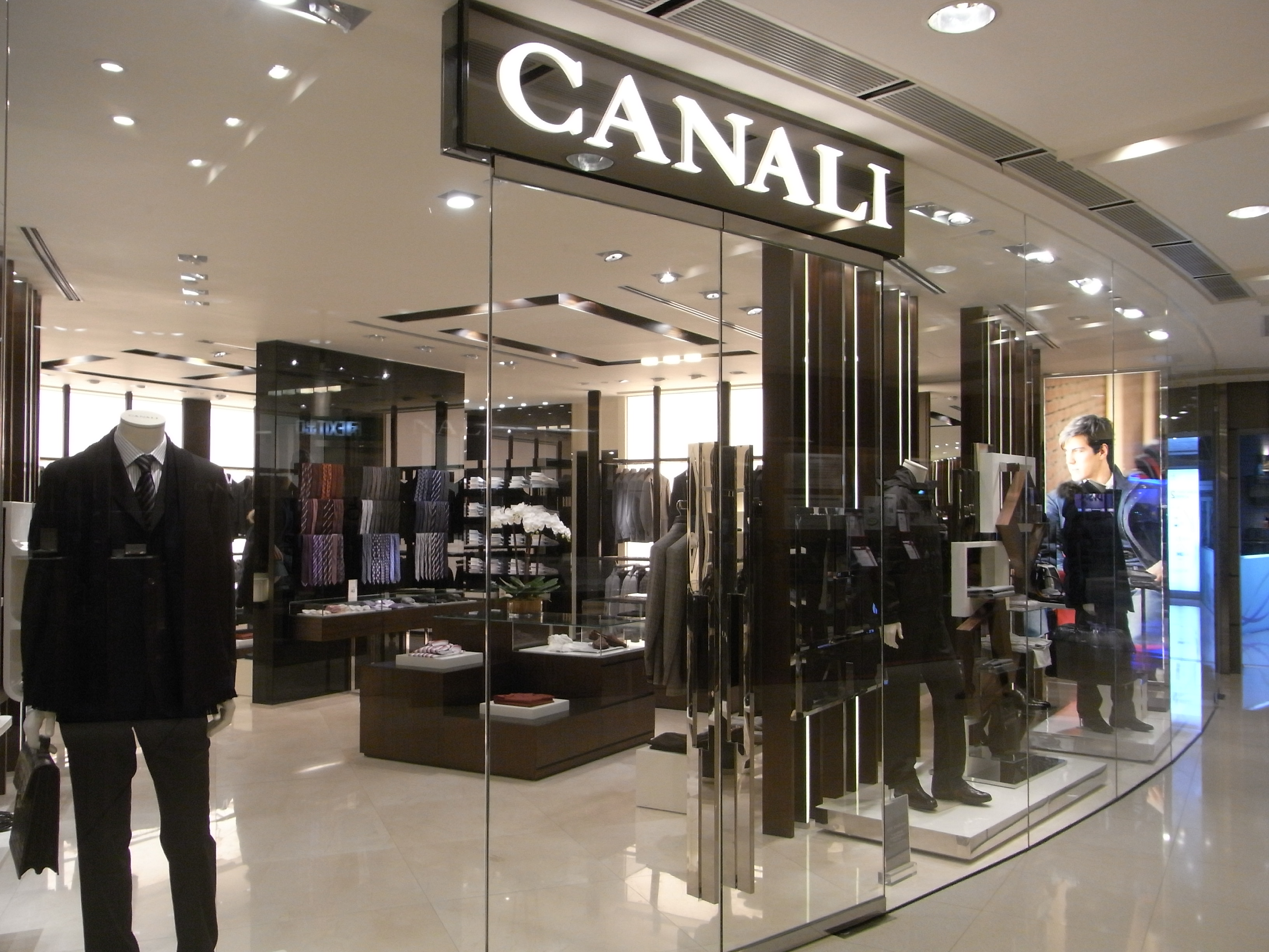 中環 Canali